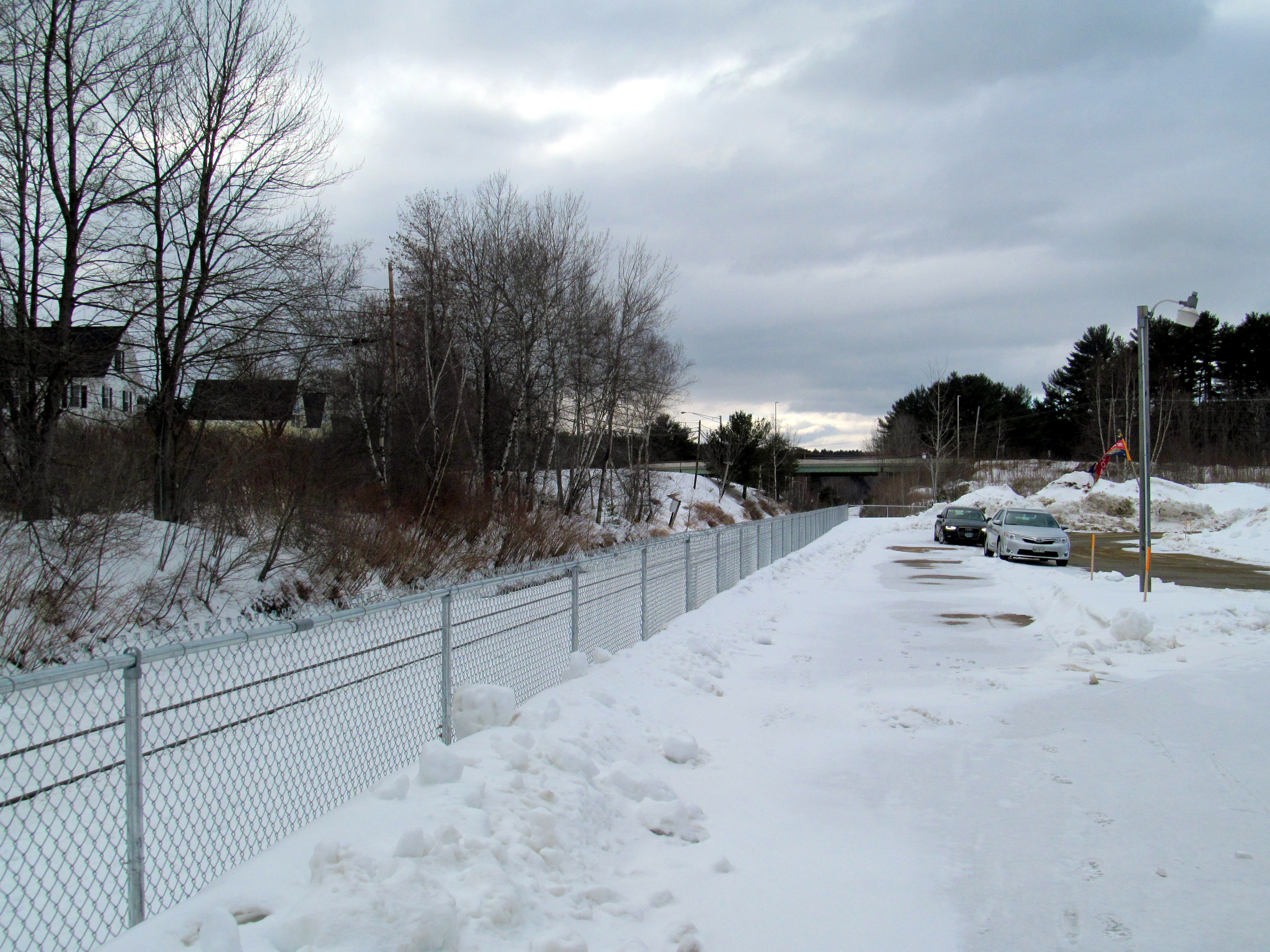 1993-built Bethel station platform, used from 1993 to 1997, in January 2017. The platform is high-level and located on a siding; it is among the most isolated high-level platforms in the country, and one of a very small number of high-platform stations to be abandoned.